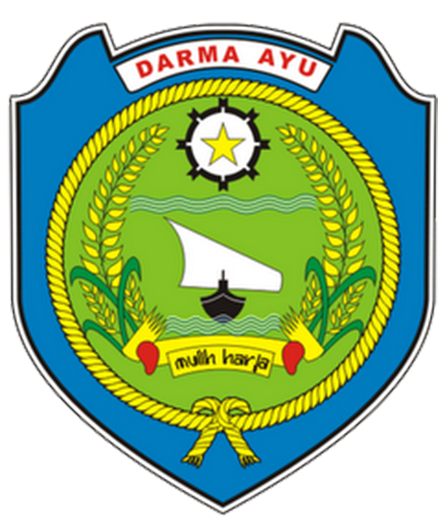 Lambang (Coat of Arms) of Kabupaten (Regency) of Indramayu, provinsi Jawa Barat (West Java Province), Indonesia